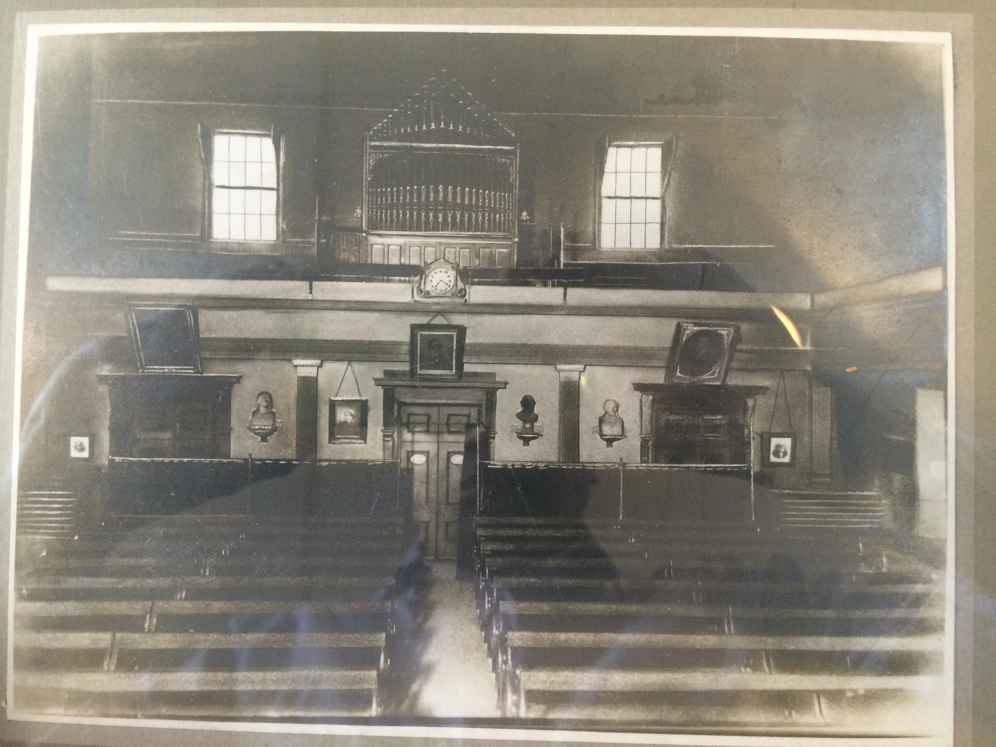 The rear interior of South Place Ethical Chapel, Finsbury. Photo taken c. 1870